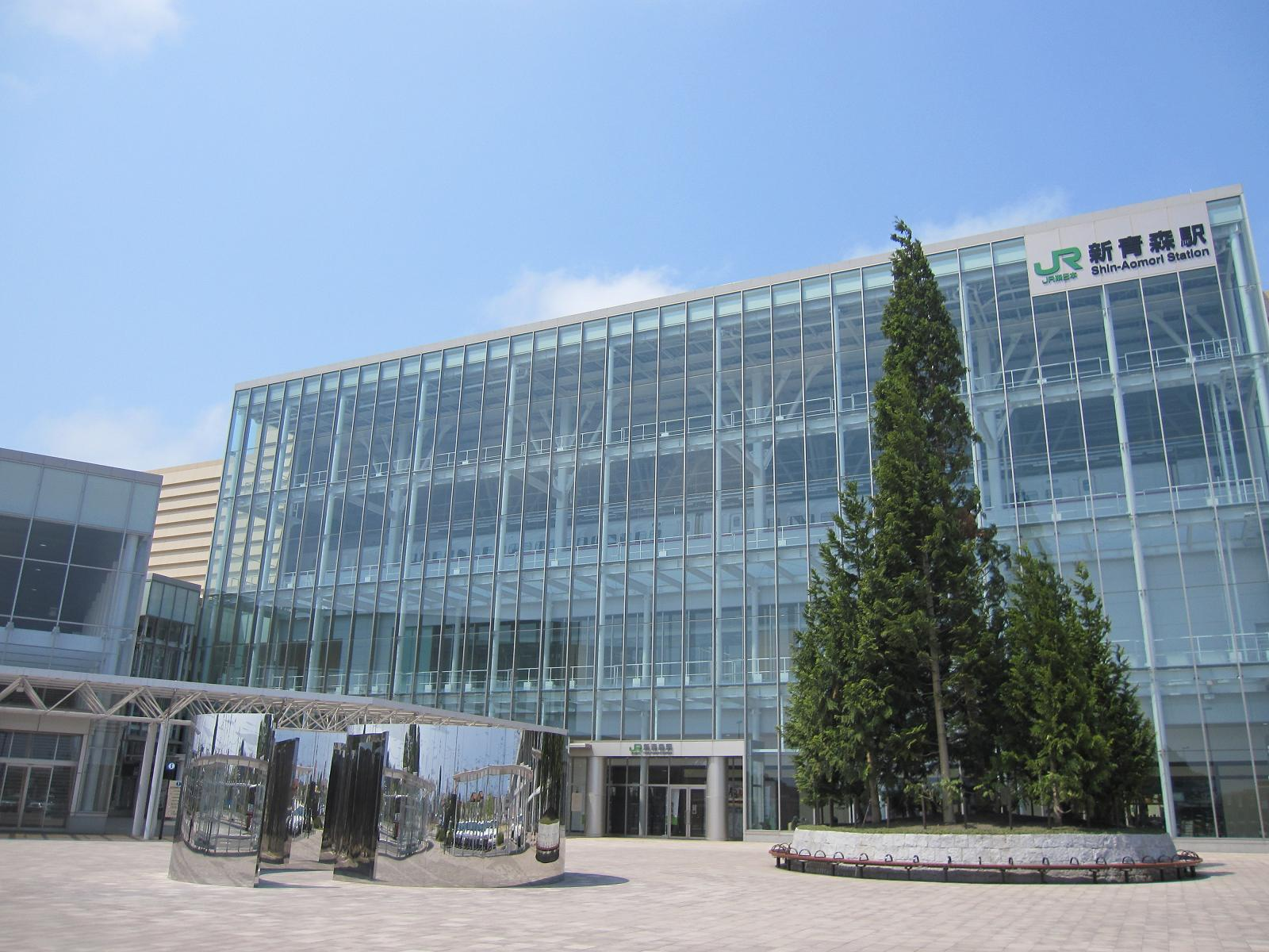 Shin-Aomori station